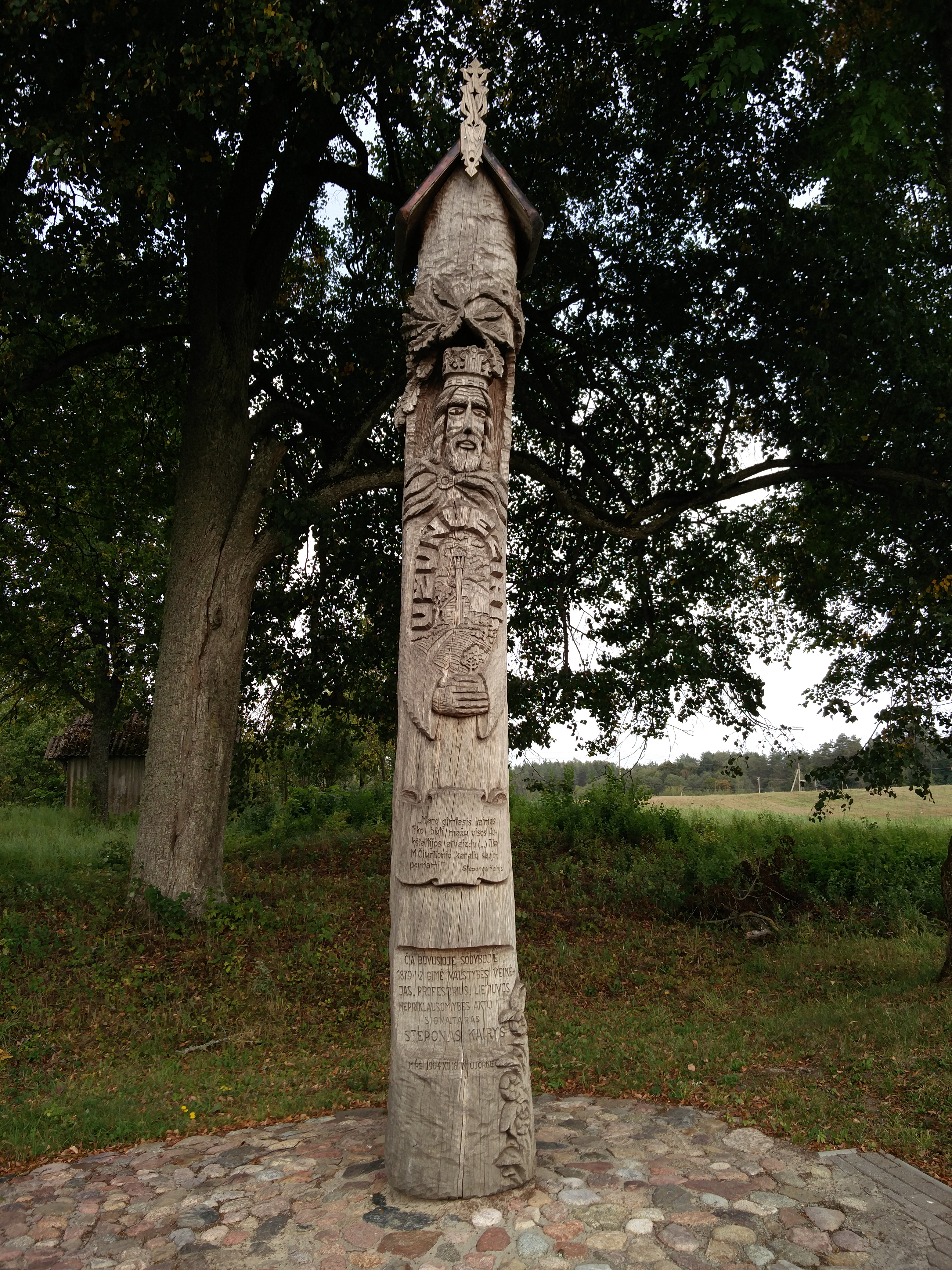 Monument for Steponas Kairys in Užunvėžiai village, Lithuania.